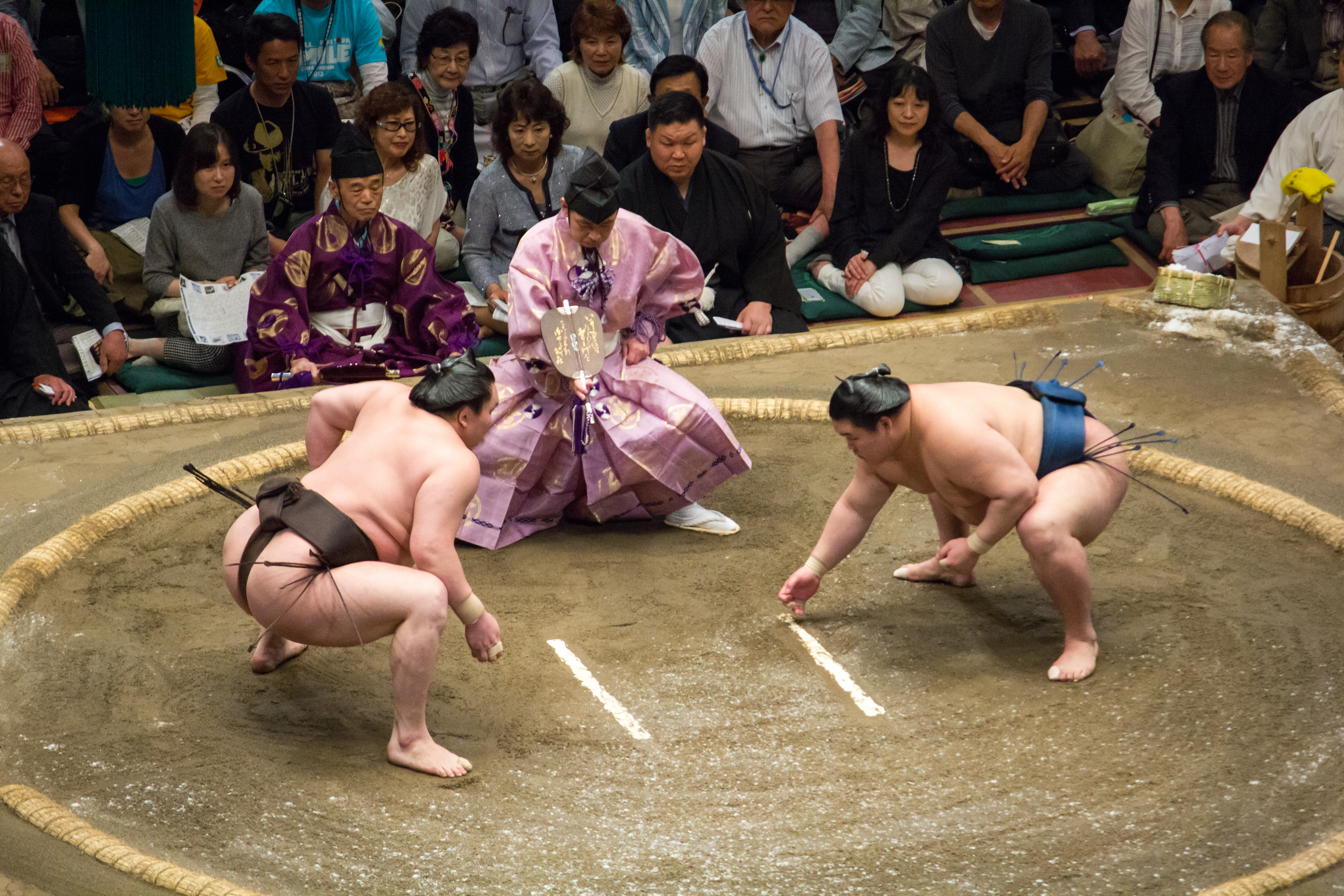 Yokozuna Hakuhō (left) vs. sekiwake Gōeidō at the 2014 May Grand Sumo Tournament in Tokyo, Japan. Canon EOS 60D + EF-S 55-250mm F4-5.6 IS